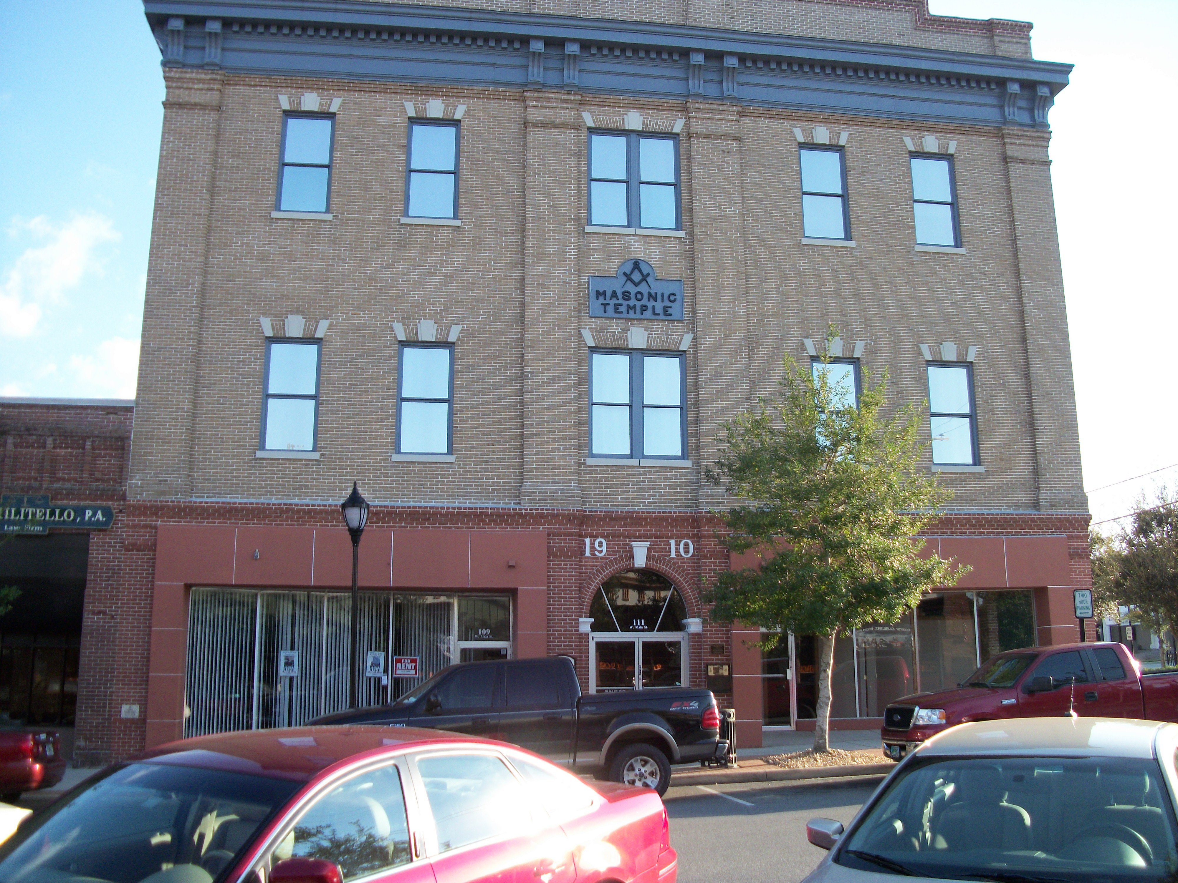 The former Masonic Temple of Citrus Lodge No. 118, F. and A.M. as seen from across Old Main Street in Inverness, Florida. Listed on the National Register of Historic Places as being on 111 West Main Street, although changes of the street configuarions around the nearby Old Citrus County Courthouse, have resulted in the street it's located on being renamed "Old Main Street."